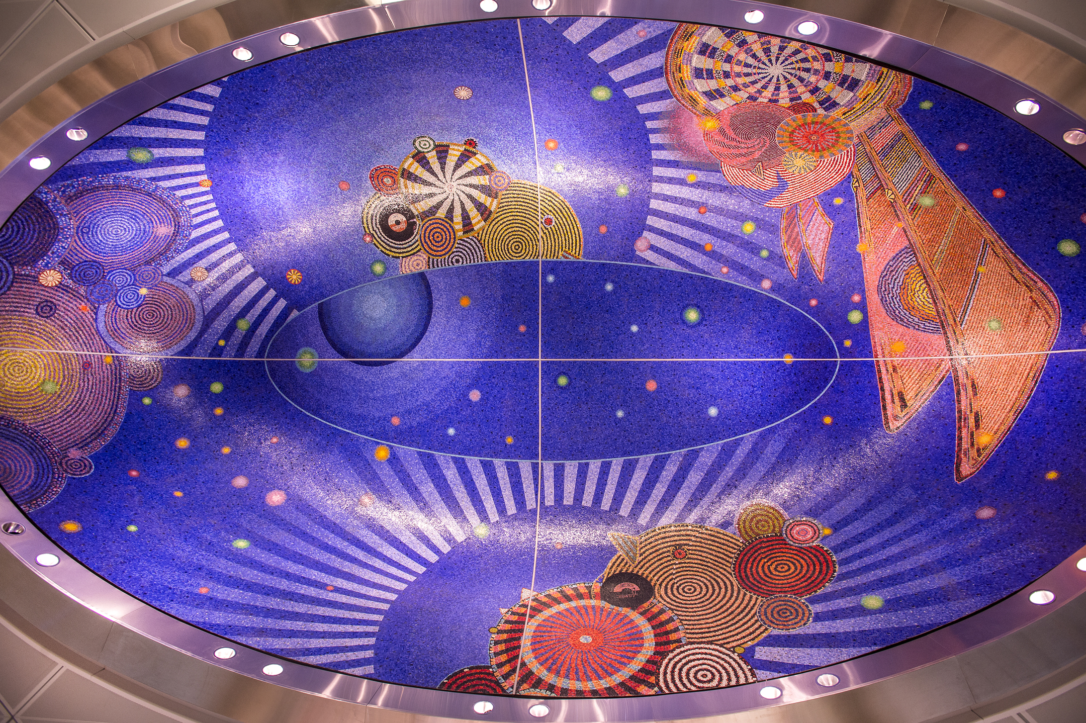 34 St-Hudson Yards Station